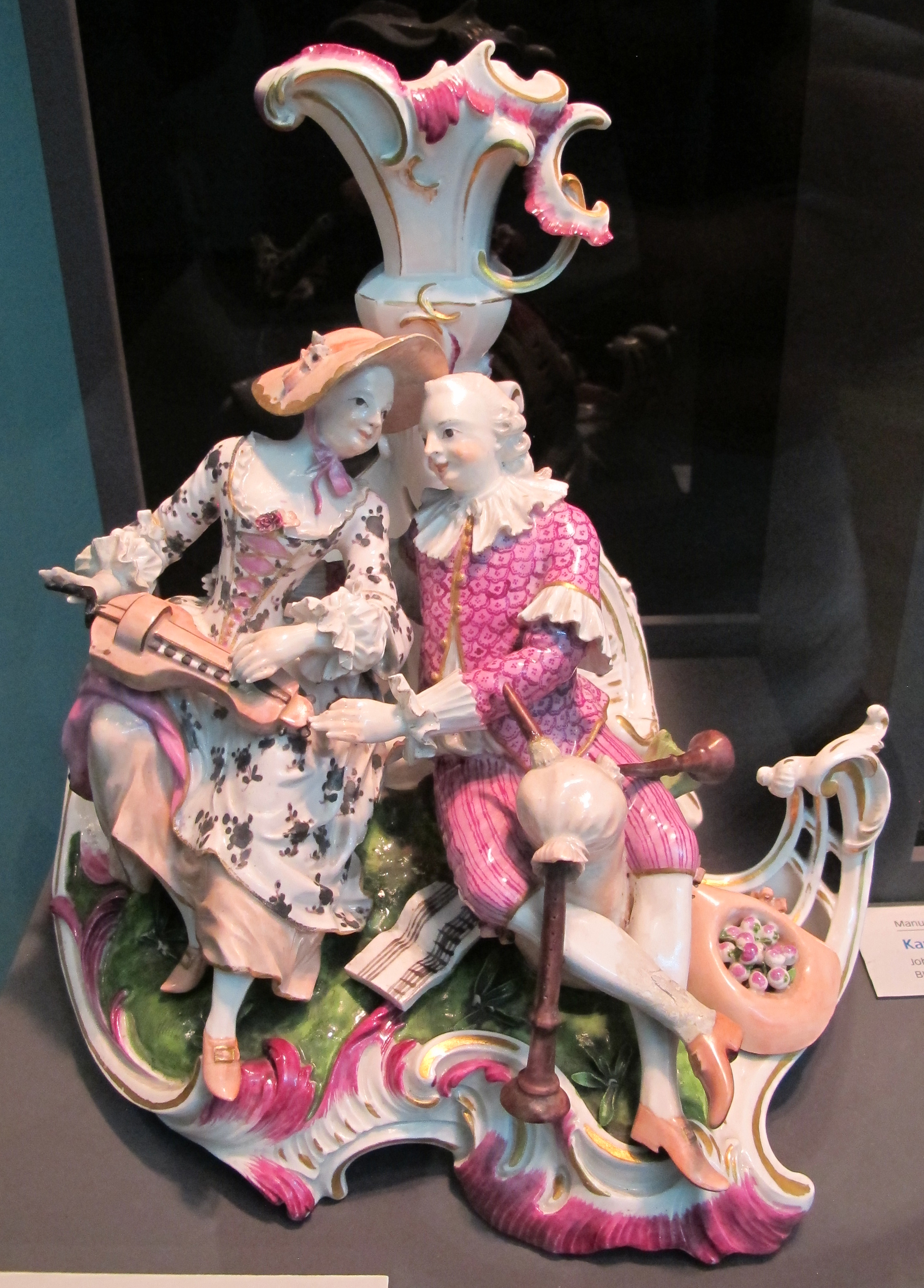 Porcelain in the Historisches Museum Bern